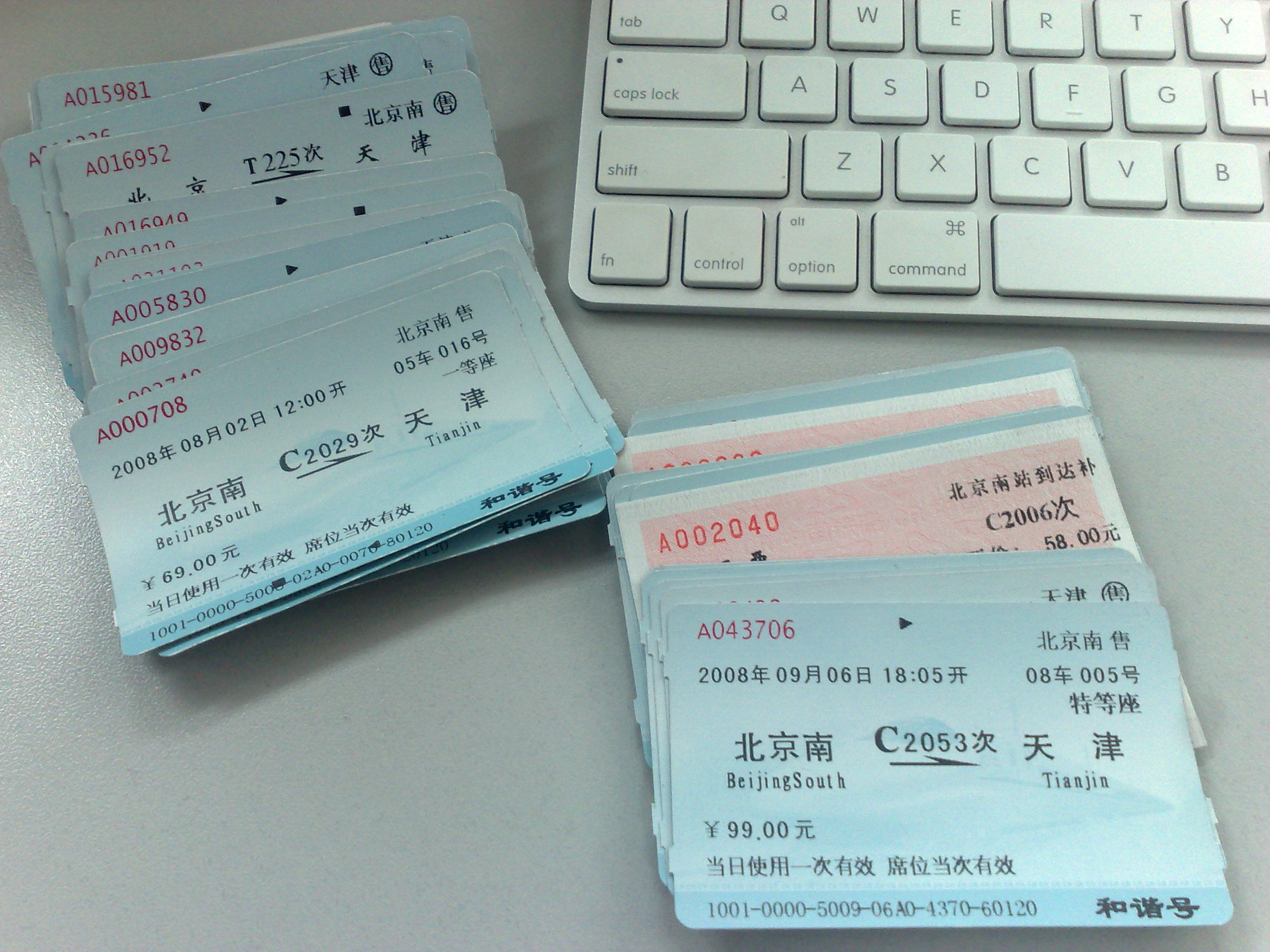 Train Tickets, Beijing–Tianjin Intercity Rail